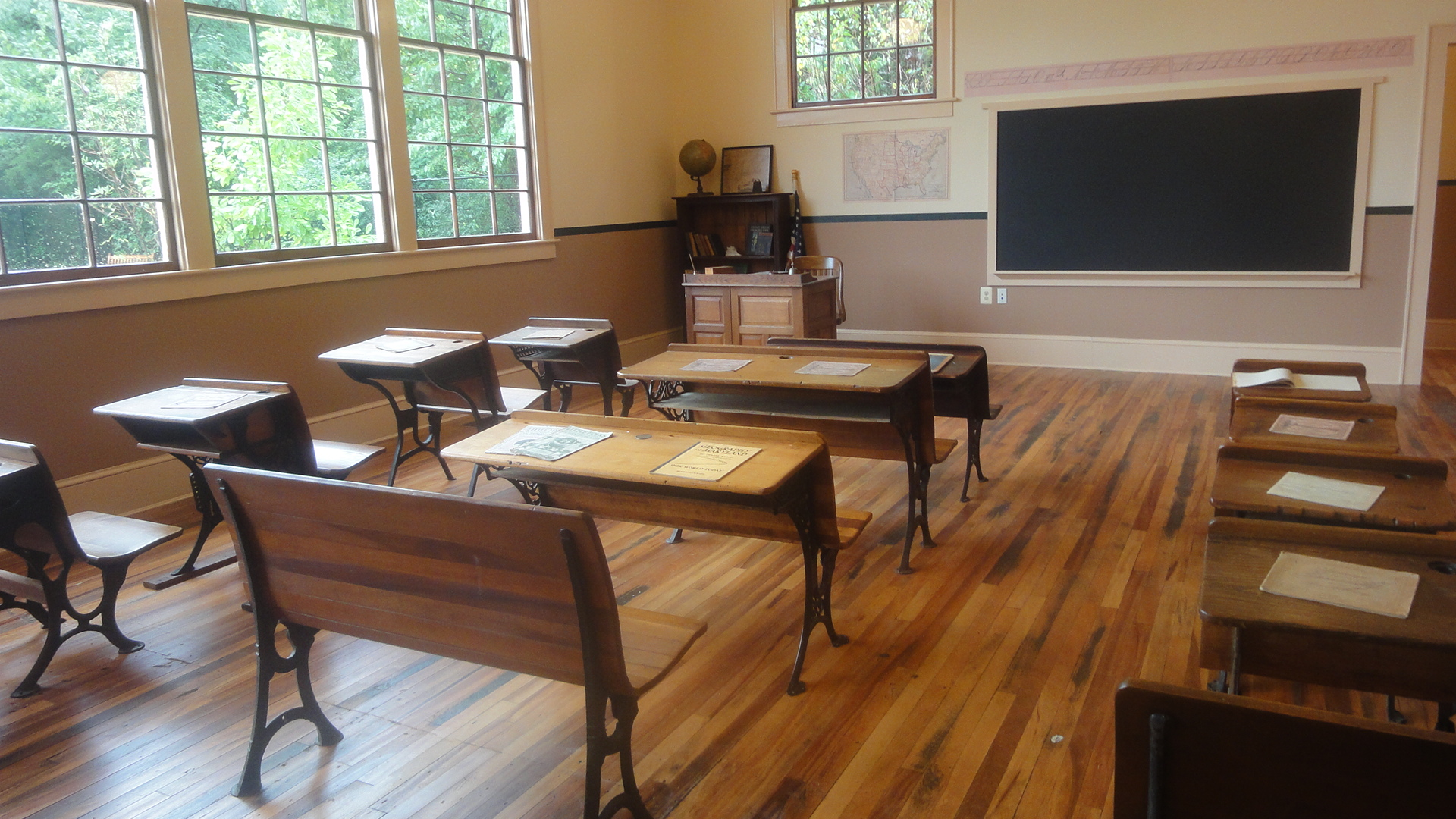 An interior image of the Ridgeley Rosenwald School after its restoration. It was built in 1927 to serve the Black community in Capitol Heights. In 2011 it was restored and reopened as a museum. This site was selected for Endangered Maryland in 2007.